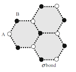 Graphene plate structure and sigma bonds in it